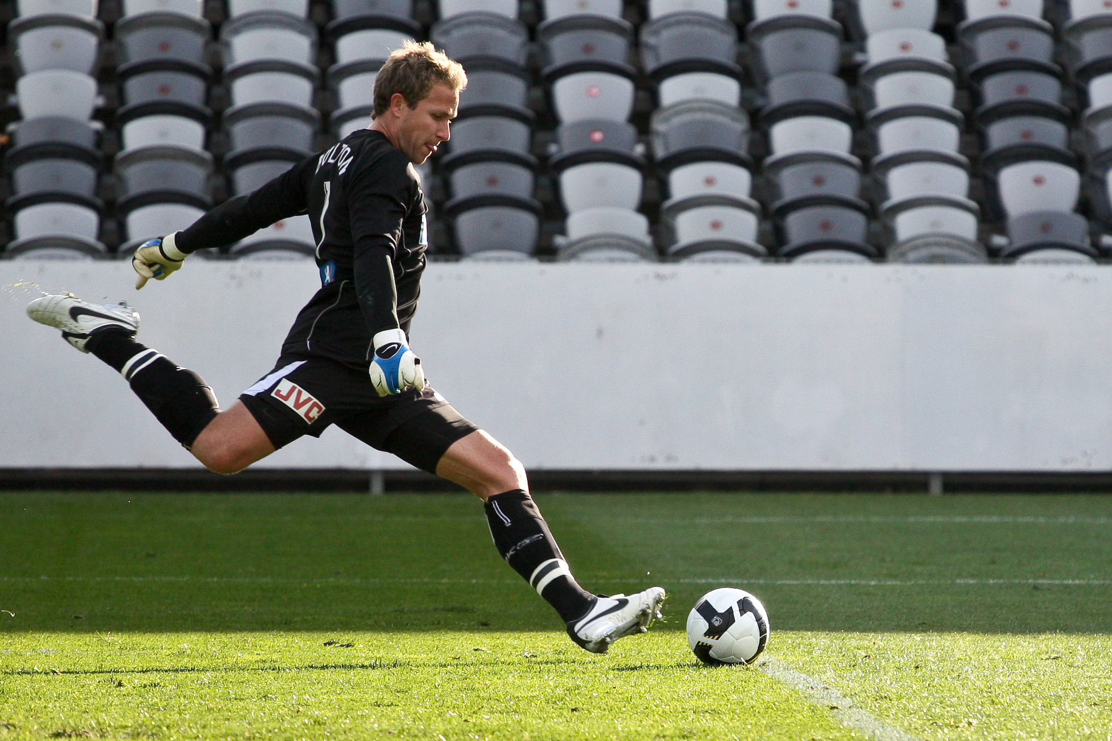 Clint Bolton takes a goal kick in the 2008 Pre-Season Cup game against the Central Coast Mariners.